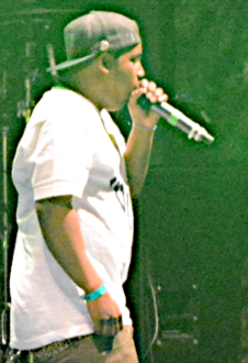 Odd Future member Jasper Dolphin performing in LA, California, 2012